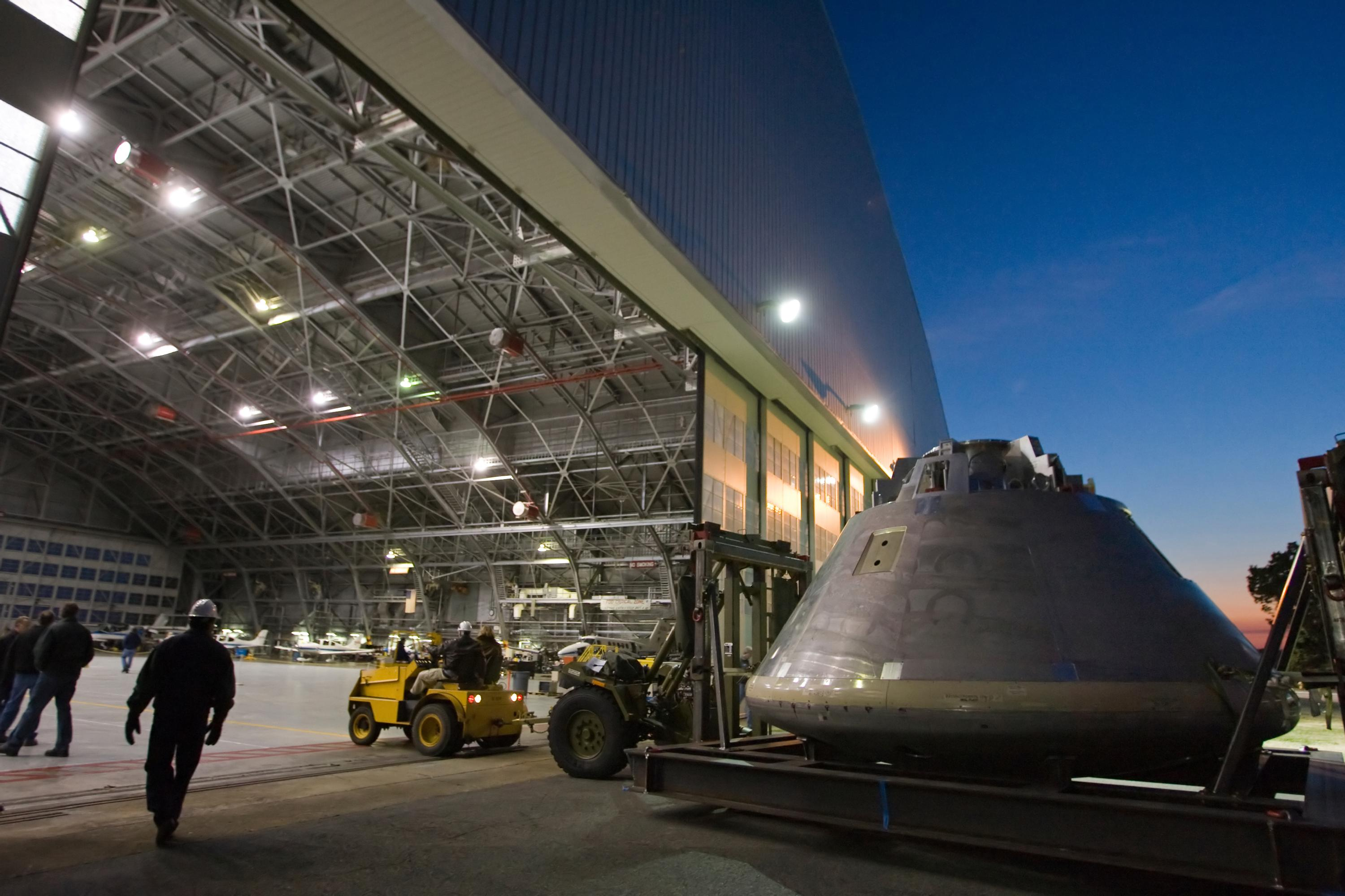 Orion A mock-up of the Orion space capsule heads to its temporary home in a hangar at NASA's Langley Research Center in Hampton, Va. In late 2008, the full-size structural model will be jettisoned off a simulated launch pad at the U.S. Army's White Sands Missile Range in New Mexico to test the spacecraft's astronaut escape system, which will ensure a safe, reliable method of escape for astronauts in case of an emergency. NASA's Constellation program is building the Orion crew vehicle to carry humans to the International Space Station by 2015 and to the moon beginning in 2020.